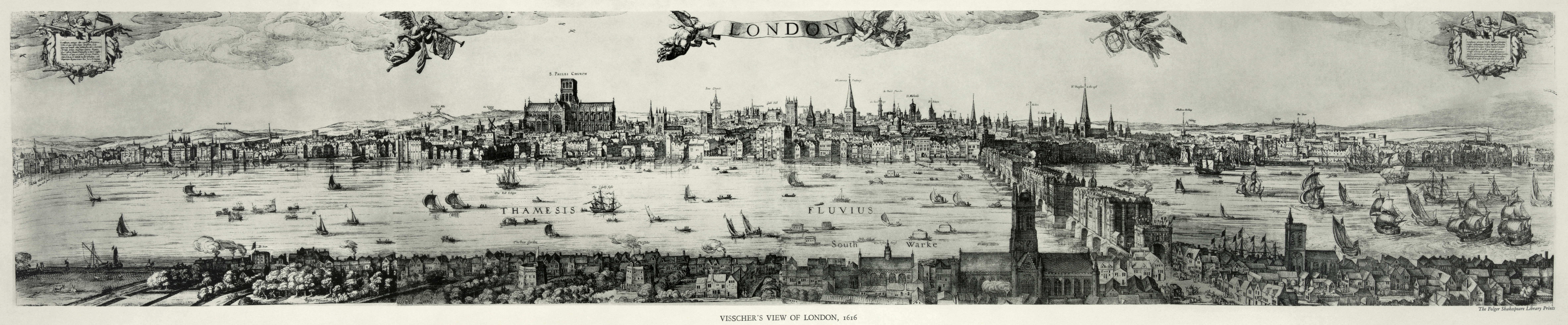 Visscher's view of London, 1616